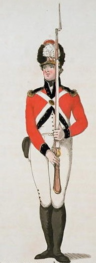 A painting by Thomas Rowlandson of a Volunteer Corps infantryman from the Temple Association